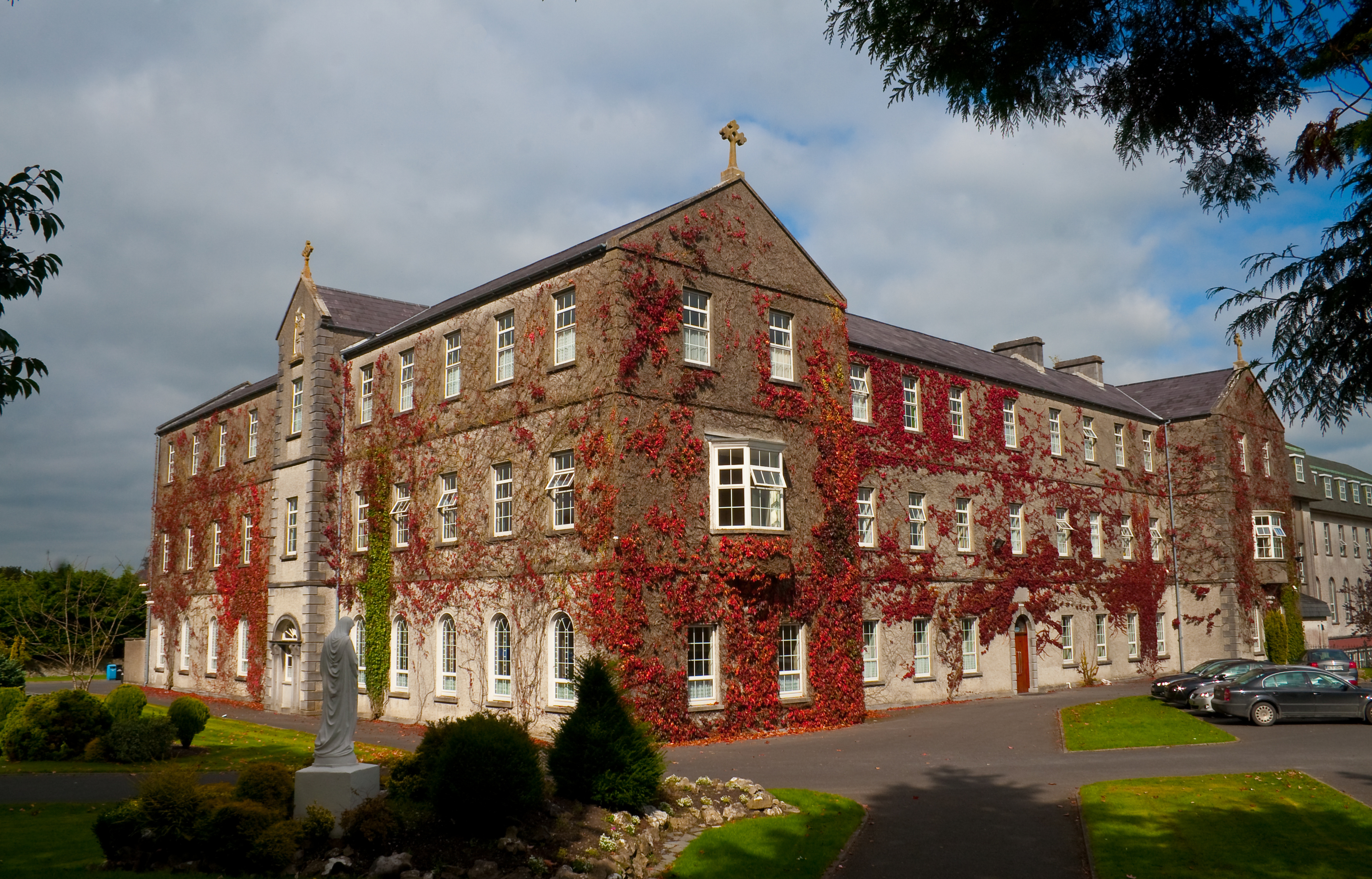 Tuam, County Galway, Ireland St. Jarlath's College